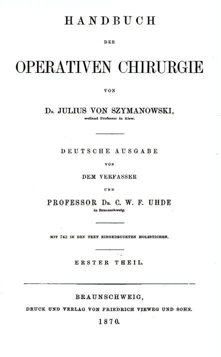 Front page of Szymanowski's Handbuch